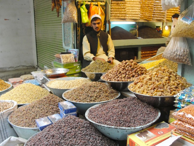 Made in Afghanistan. Imported massivelly to Czechoslovakia in the 70s, not anymore, unfortunately.